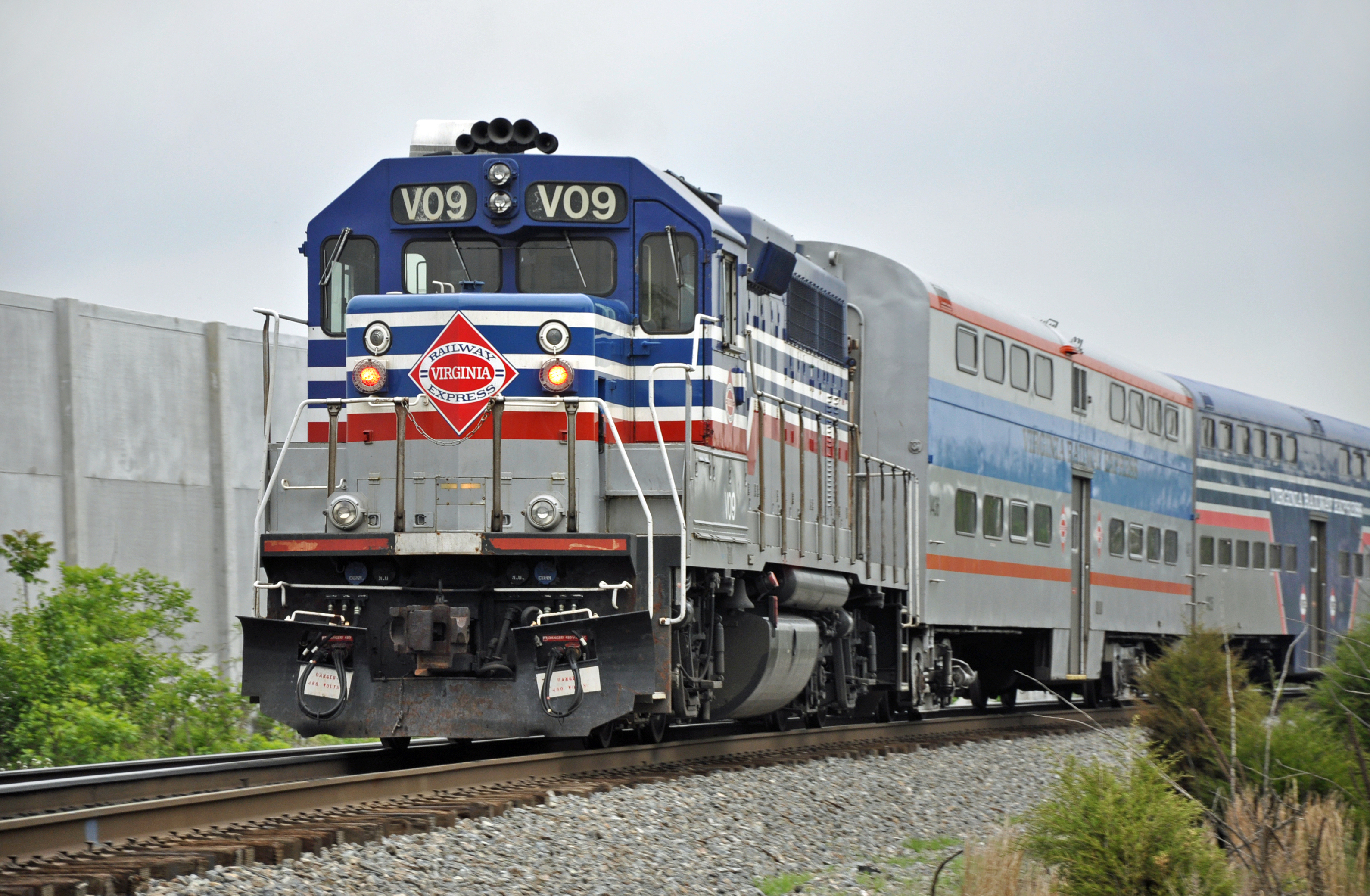 Virginia Railway Express V09 pushing to the District at Fredericksburg, Virginia.